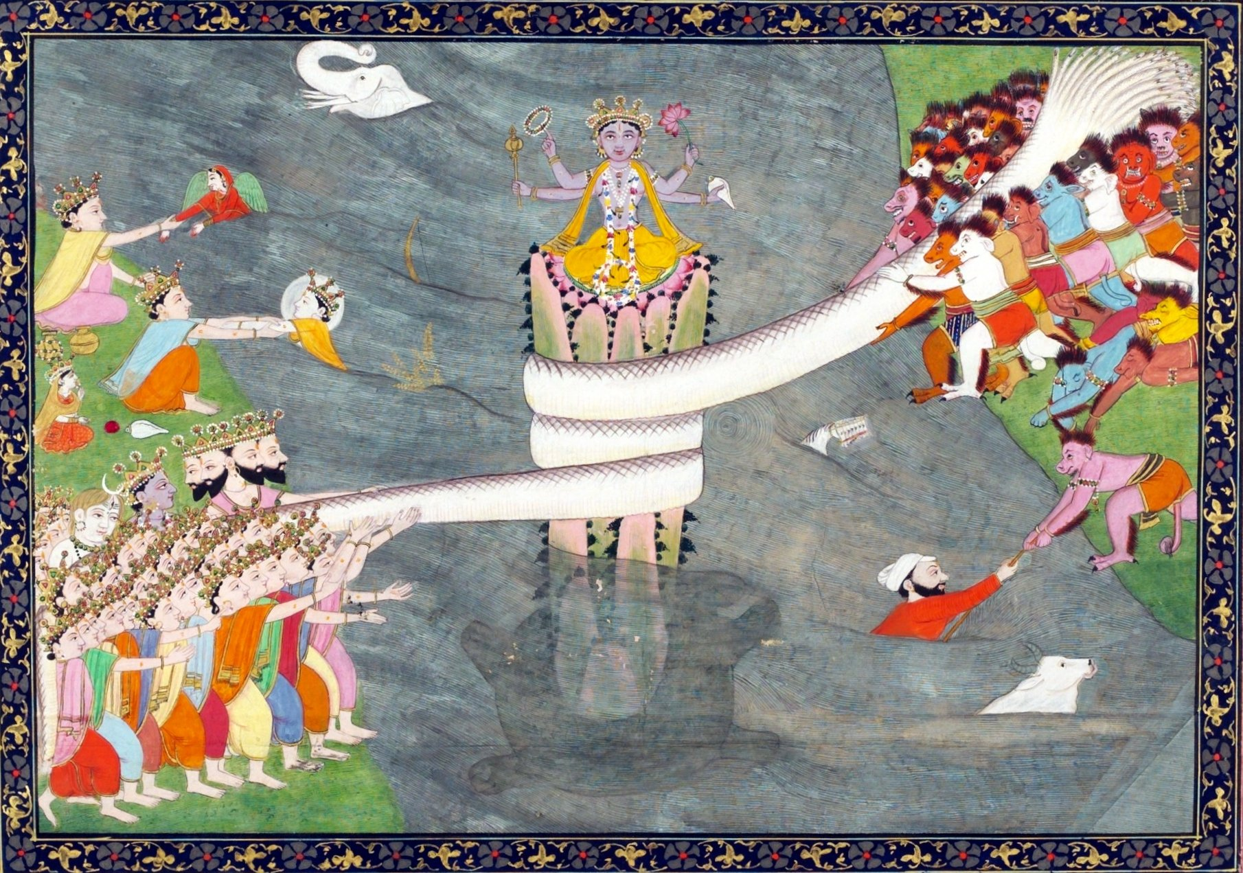 The tortoise (Kurma) incarnation of Vishnu. Illustration to a 'Vishnu Avatara' series